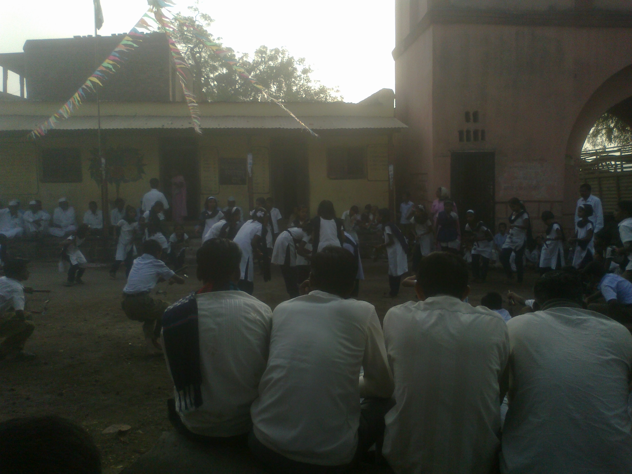 Jaipur Sschool Student Celebrating 26th Jan.